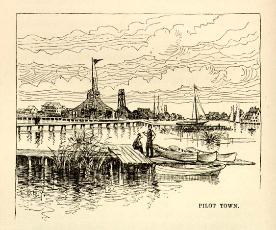 Pilot Town, Louisiana, in the 1880s. Community on piers in the swamps of the end of the lower Mississippi River delta, where ocean ships took on pilots for navigating the river.